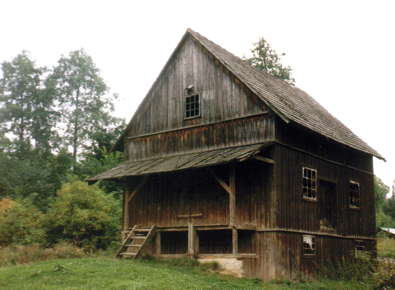 Tarnogród, Poland Old mill, Stary młyn